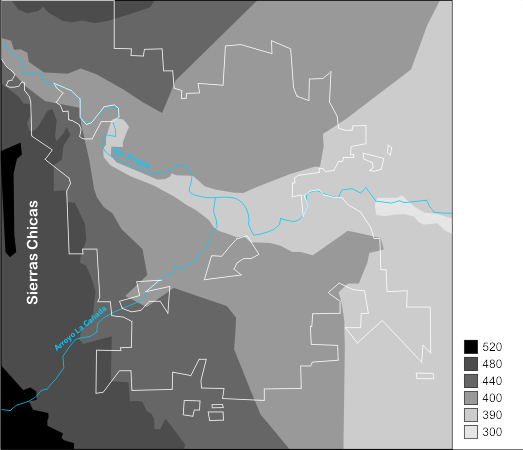 Map of terrain of the City Cordoba (Argentina) with names. Scale of relief given in meters above sea level. City line indicated in white line. Main river and stream indicated in blue line.